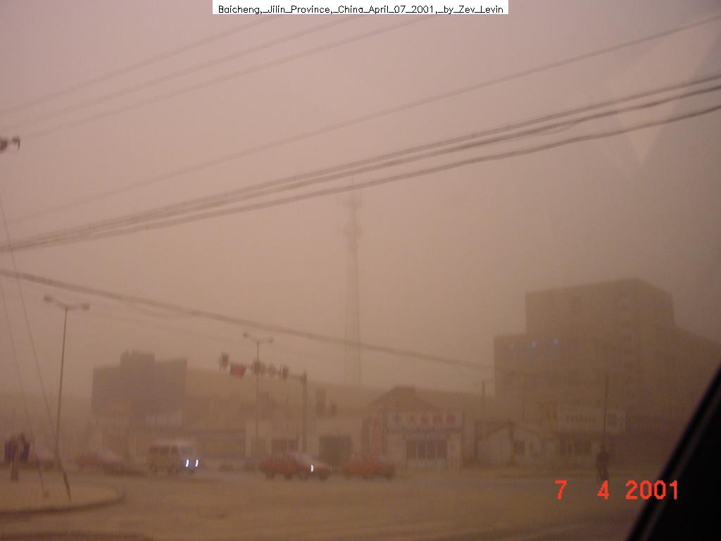 Photograph of the city, Baicheng in the province, Jilin, People's Republic of China, taken by Zev Levin on: April 7, 2001: and published on the NASA site (public domain)